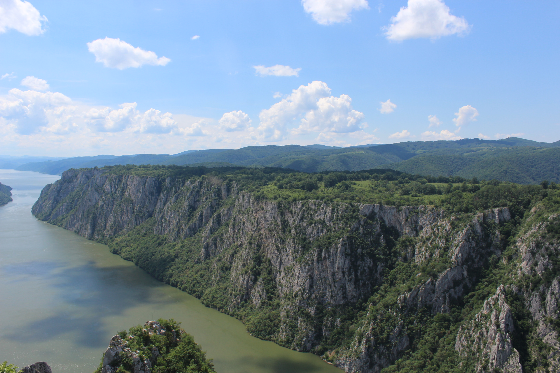 View of the left side of the Kazan gorge from the karst plateau on the right side of the gorge. Srpski (latinica): Pogled na levu stranu klisure Kazan (obronci Velikog čukara) sa kraškog platoa na desnoj strani klisure. Zaravan koja podseća na rečnu terasu predstavlja fluvijalni pod Kazana, kvalitatativno viši oblik u evoluciji rečnih terasa.